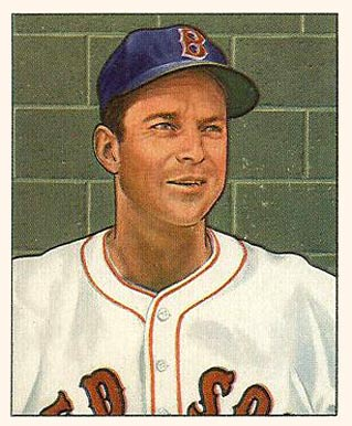 Major League Baseball player Ellis Kinder in 1950.